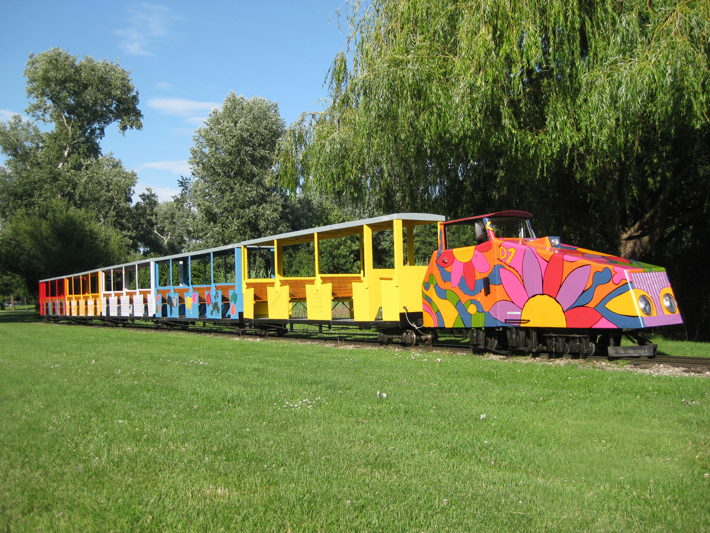 New train on Vienna's Donaupark miniature railway, designed by artists on the subject "peace".